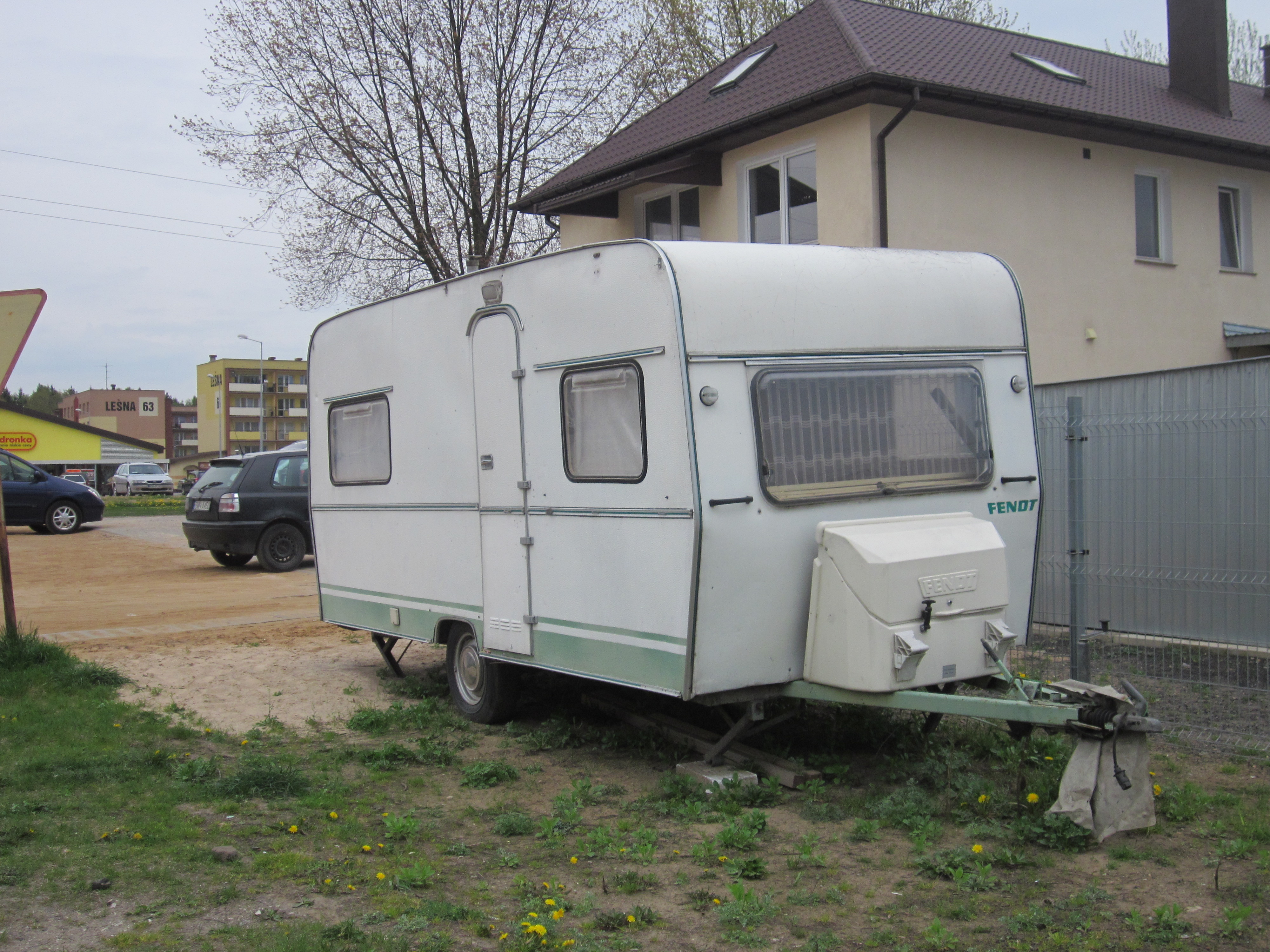 Caravans (mobile home) in Mońki